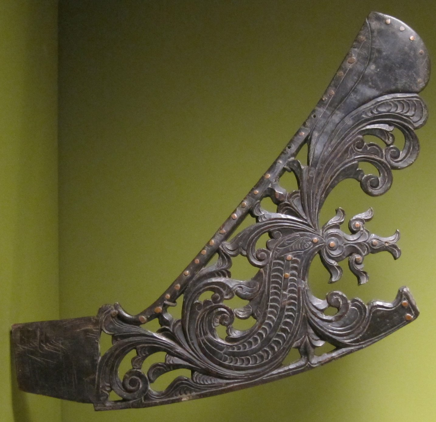 Jaw harp handle, Mindanao, Maranao, horn with brass studs, Honolulu Museum of Art, accession 5877.1